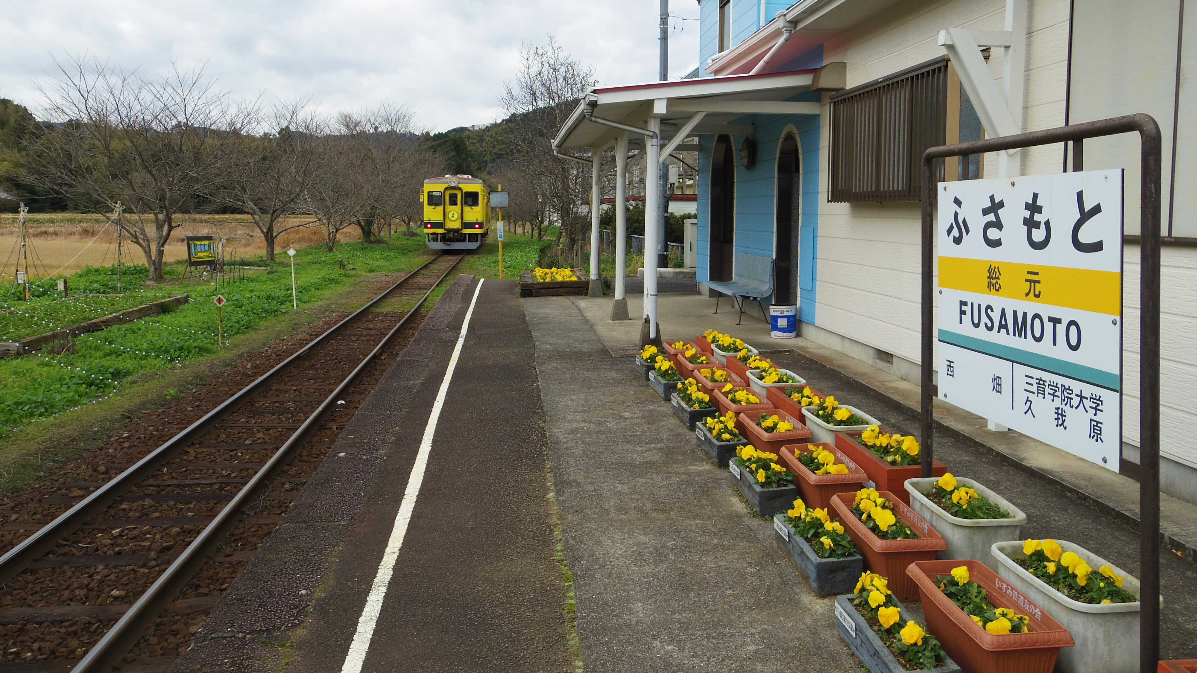 The platform at Fusamoto Station on the Isumi Line in Ōtaki town, Chiba prefecture, Japan